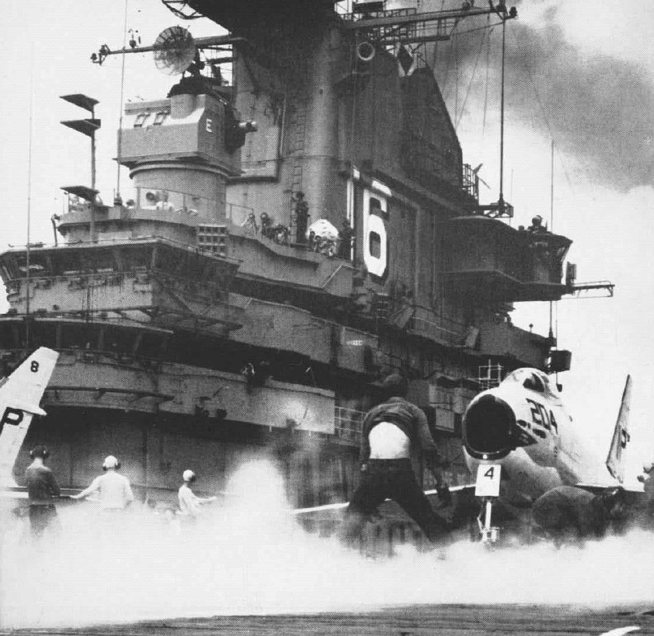 View of the island of the U.S. Navy aircraft carrier USS Lexington (CVA-16), circa in 1960. Atop the bridge is the prominent Mk 37 gun director with Mk 25 fire control radar. The primary flight control is visible on the aft end of the island. Two North American FJ-4B Fury of Attack Squadron 212 (VA-212) "Rampant Raiders" are visible on the flight deck. VA-212 was assigned to Carrier Air Group 21 (CVG-21) for three deployments on the Lexington to the Western Pacific between 1958 and 1961.